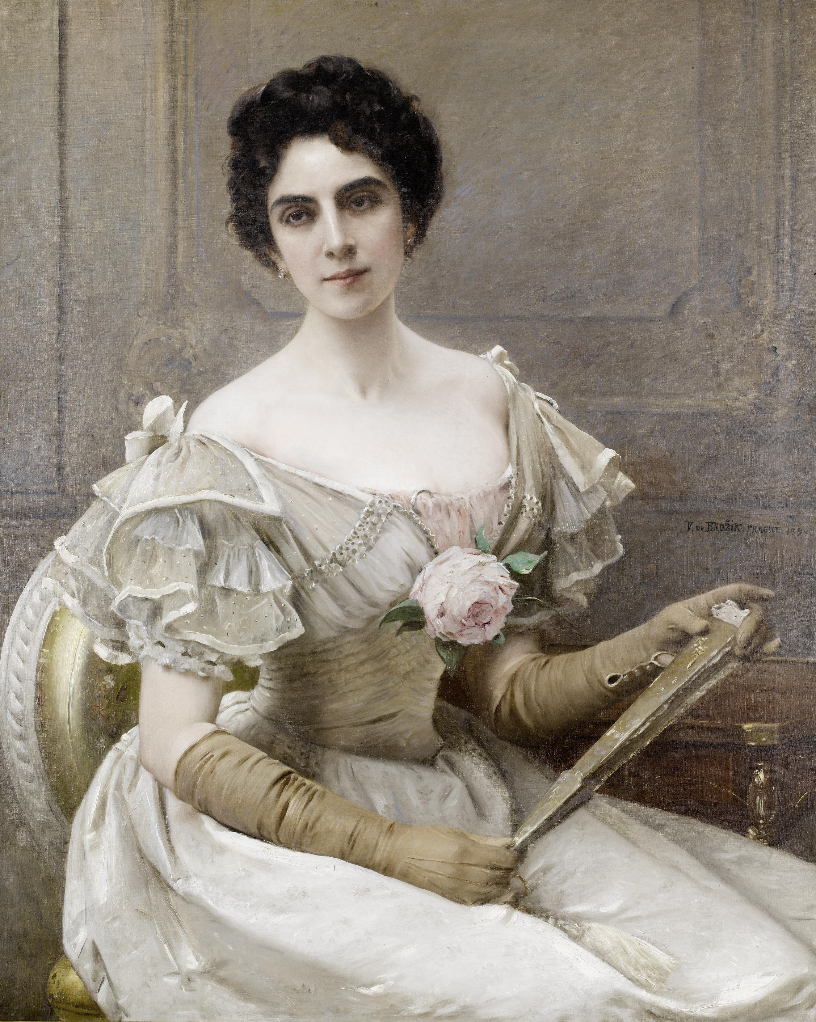 At the ball. Signed, inscribed and dated V. DE BROZIK. PRAGUE. 1898. Oil on canvas, 101.5 x 82 cm